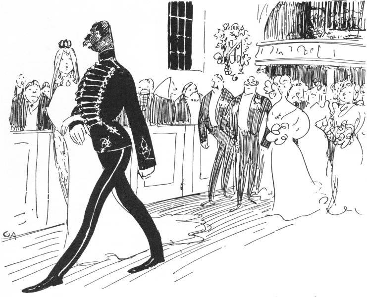 The lieutnant to his bride: "Damn it, Amanda, keep in step!"